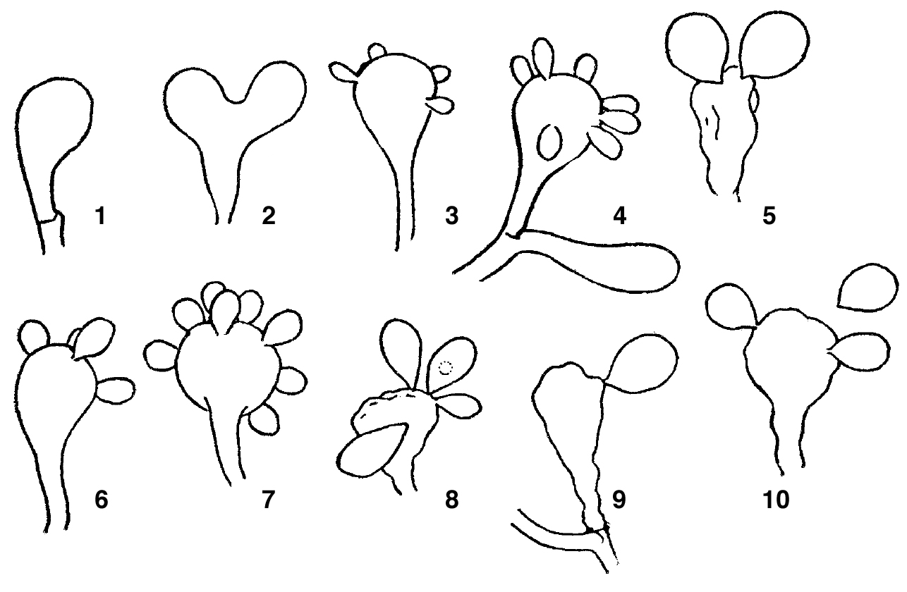 The basidia of the bird's nest fungus Cyathus stercoreus during various stages of development.